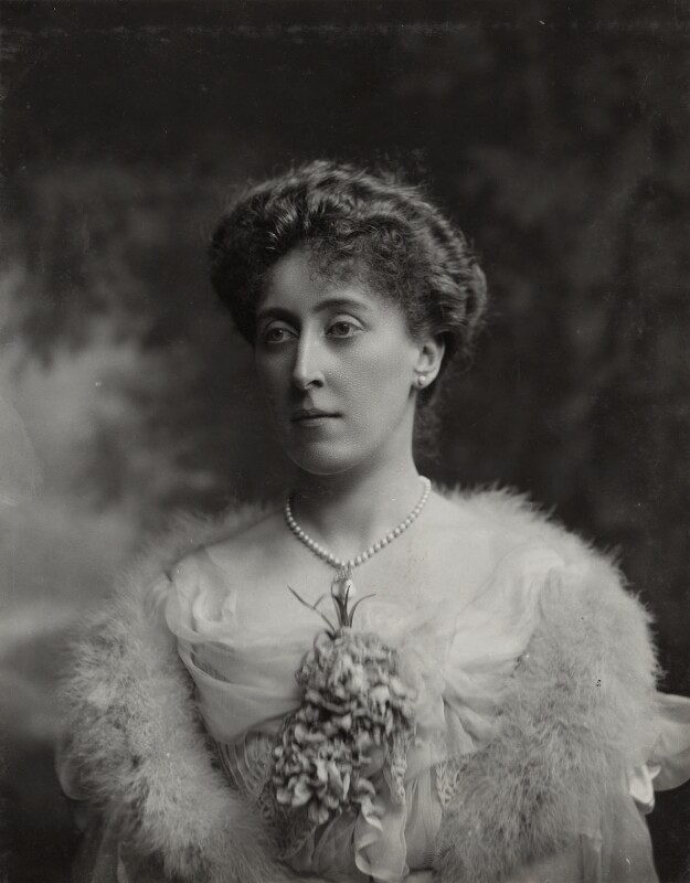 Princess Helena Victoria of Schleswig-Holstein (1870-1948), daughter of Prince Christian of Schleswig-Holstein; granddaughter of Queen Victoria.